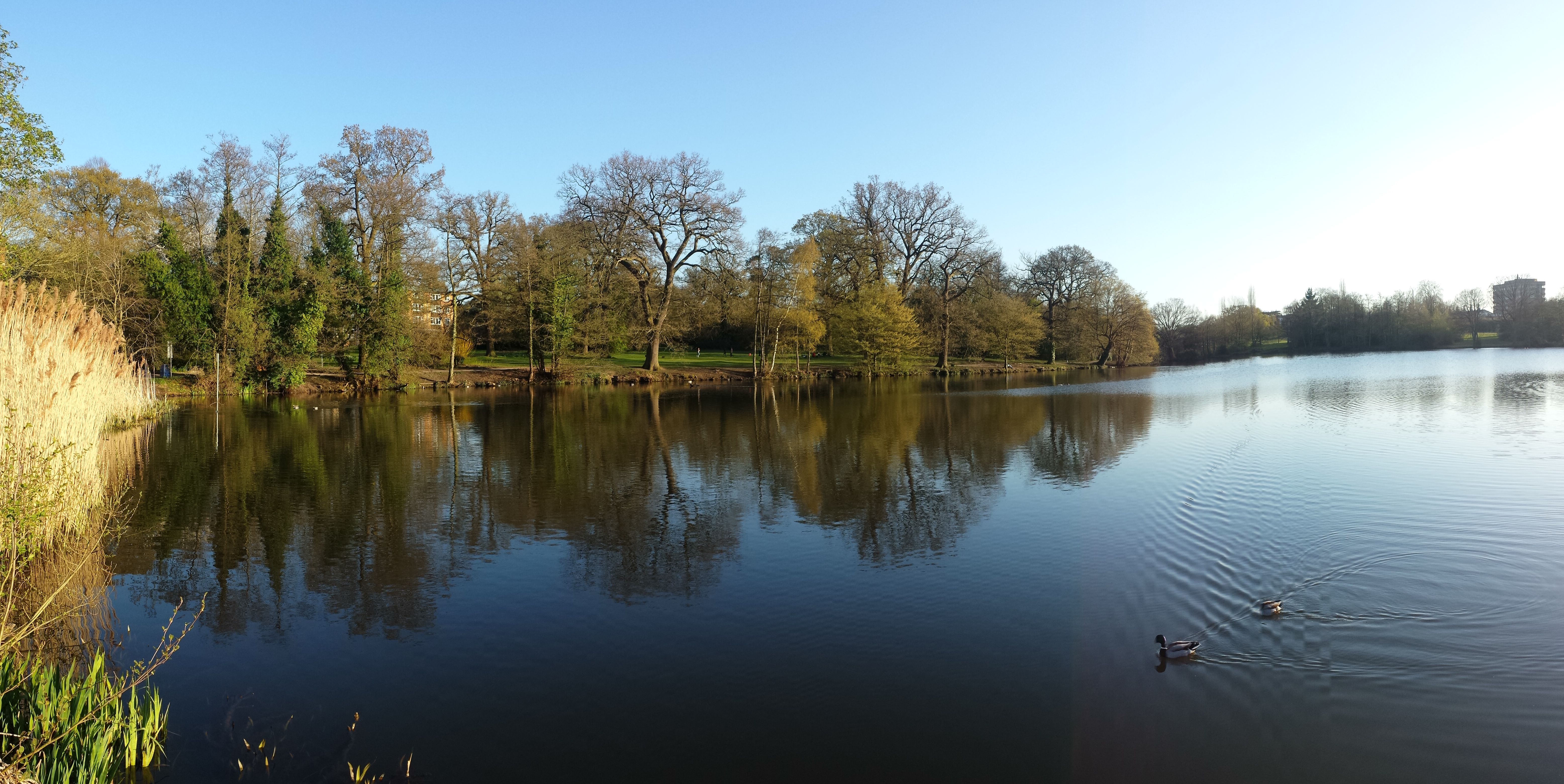 The lake at the Whiteknights Campus of the University of Reading, seen from the dam which forms the lake.